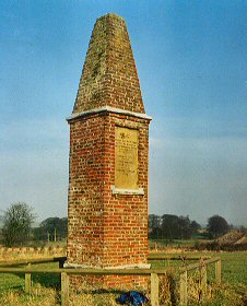 The Wold Newton Meteorite, Wold Newton, East Riding of Yorkshire, England. The inscription on the monument says: Here on this spot, December 13, 1795 fell from the atmosphere an extraordinary stone. In breadth twenty-eight inches, in length thirty-six inches and whose weight was fifty-six pounds. This column in memory of it was erected by Edward Topham, 1799 . Photo by Mike Thornton, March 2003